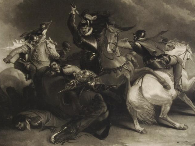 Sir William Russel at the Battle of Zutphen [...] September 22, 1586. The poet Sir Philip Sidney (1554-1586) dies at Warnsveld - 1586. Historydrawing